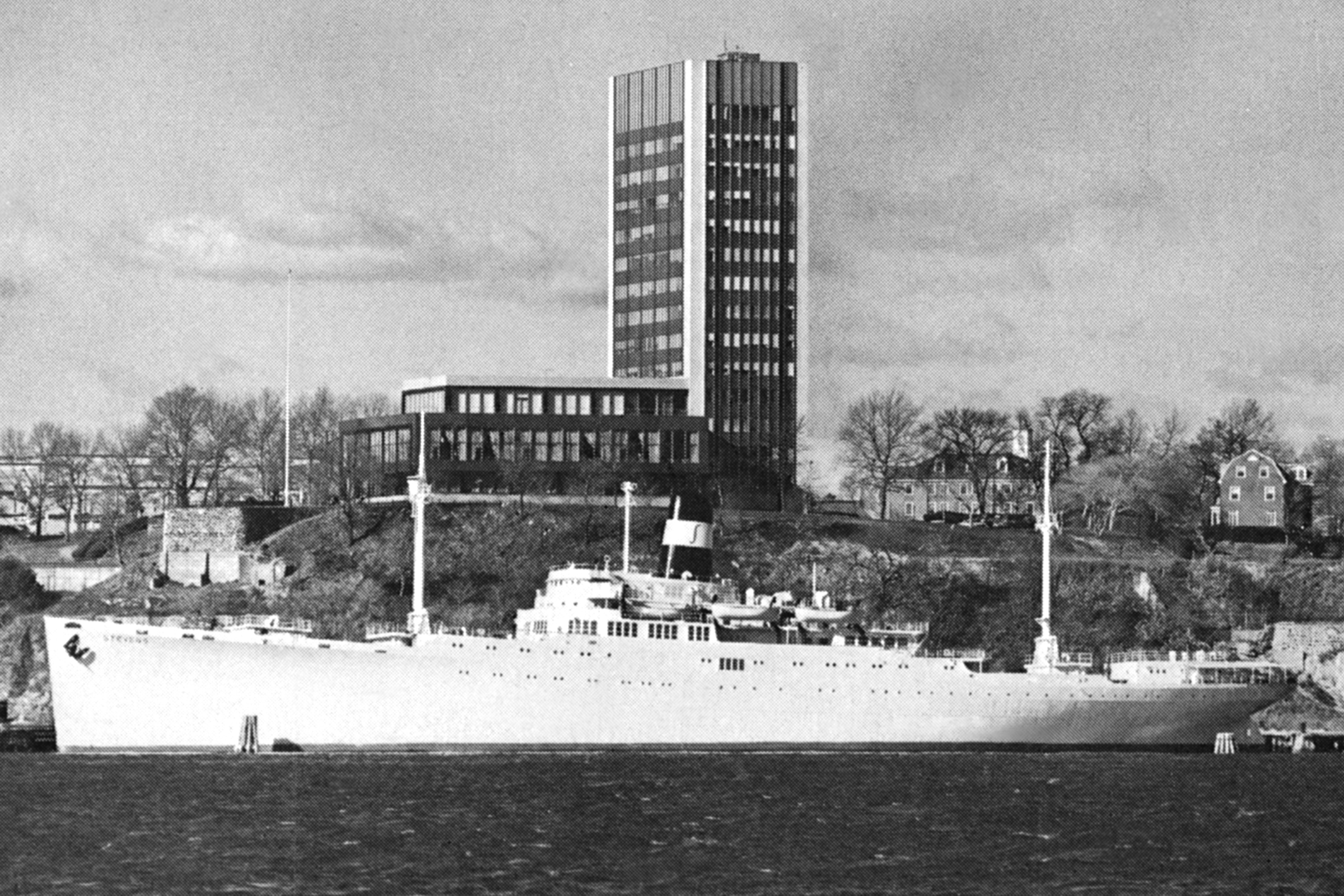 Postcard image of SS Stevens with 14-story Stevens Institute of Technology Student Center building in the background. The 473-foot, 14,893-ton ship served as the floating dormitory from 1968 to 1975 for about 150 students of the institute. SS Stevens, formerly cruise liner SS Exochorda of the New "4 Aces" fleet of American Export Lines, is shown moored at the Eighth Street Pier on the Hoboken, NJ campus. The view is toward the west, from Manhattan, across the Hudson River. This image has been scanned from the original postcard. Approximately 15% of the original image area, the area beyond the ship, was cropped. The grainy appearance of the image is evident in the original postcard. For other photos, see SS Stevens Gallery